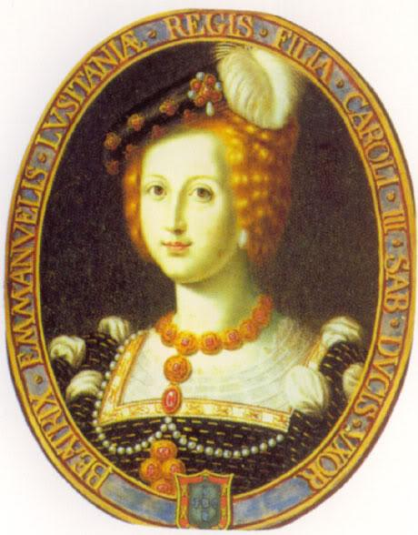 Portrait of Beatrice of Portugal, Duchess of Savoy (1504-1538)